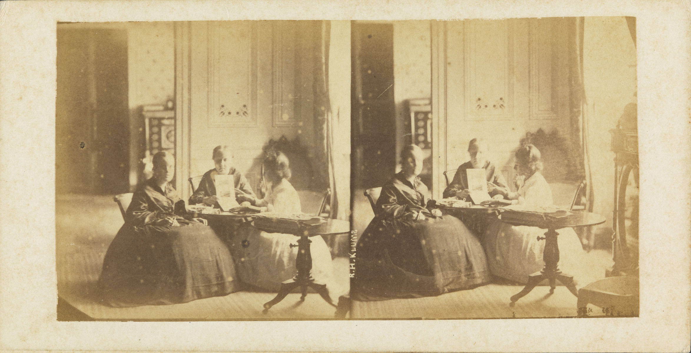 Princesses Leopoldina (1847-1871) (left), Isabel (1846-1921) (center) and an unidentified friend.